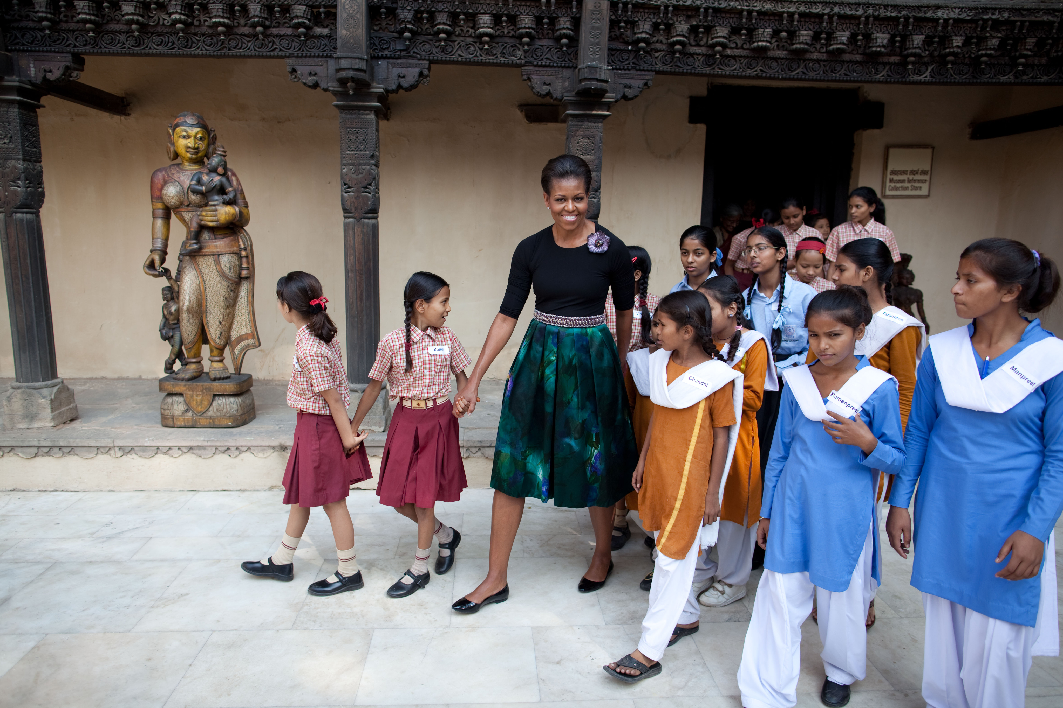 First Lady Michelle Obama, accompanied by children from low income communities in the region, tours the National Crafts Museum, New Delhi, India, Nov. 8, 2010. (Official White House Photo by Chuck Kennedy)